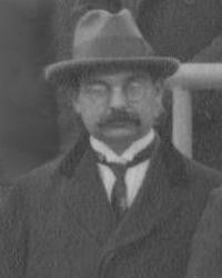 Maximilian Krafft, Mathematical Society Jena, visitors' conference at Abbeanum in Jena, 26th until 28th October 1930.